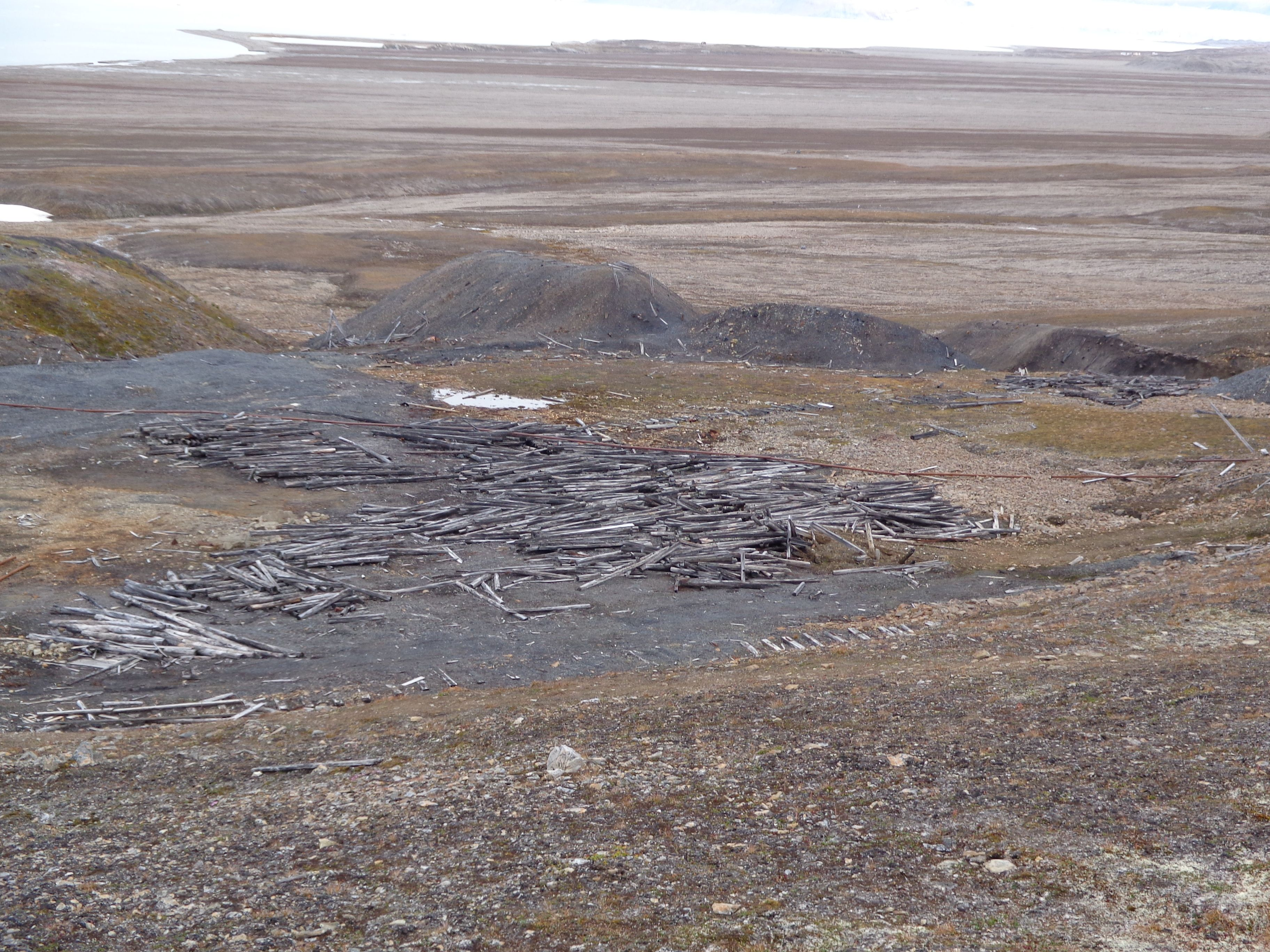 Remains of coal extraction in Ny-Ålesund